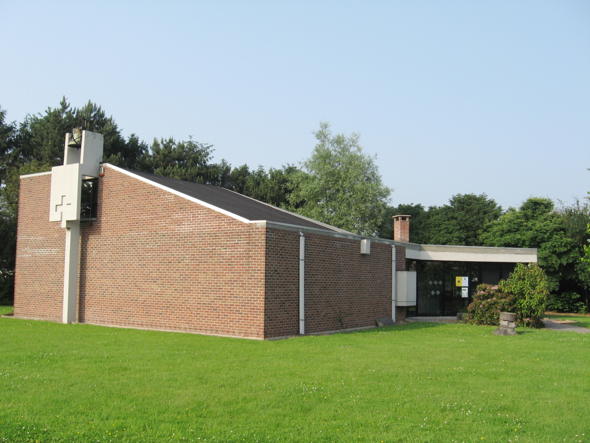 Church of Saint Aldegonde in Ezemaal, Landen, Flemish Brabant, Belgium